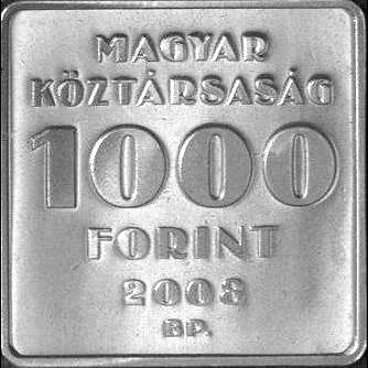 Scan of the reverse of the 2008 Hungarian Puskas commemorative coin